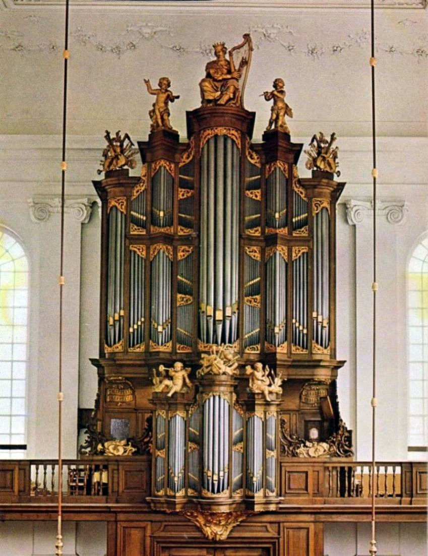 18th century organ made by Johann Heinrich Hartmann Bätz, in the old Lutheran Church of The Hague